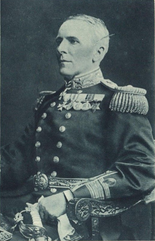 Royal Navy Rear Admiral Richard H. Peirse, KCB, MVO c. 1915